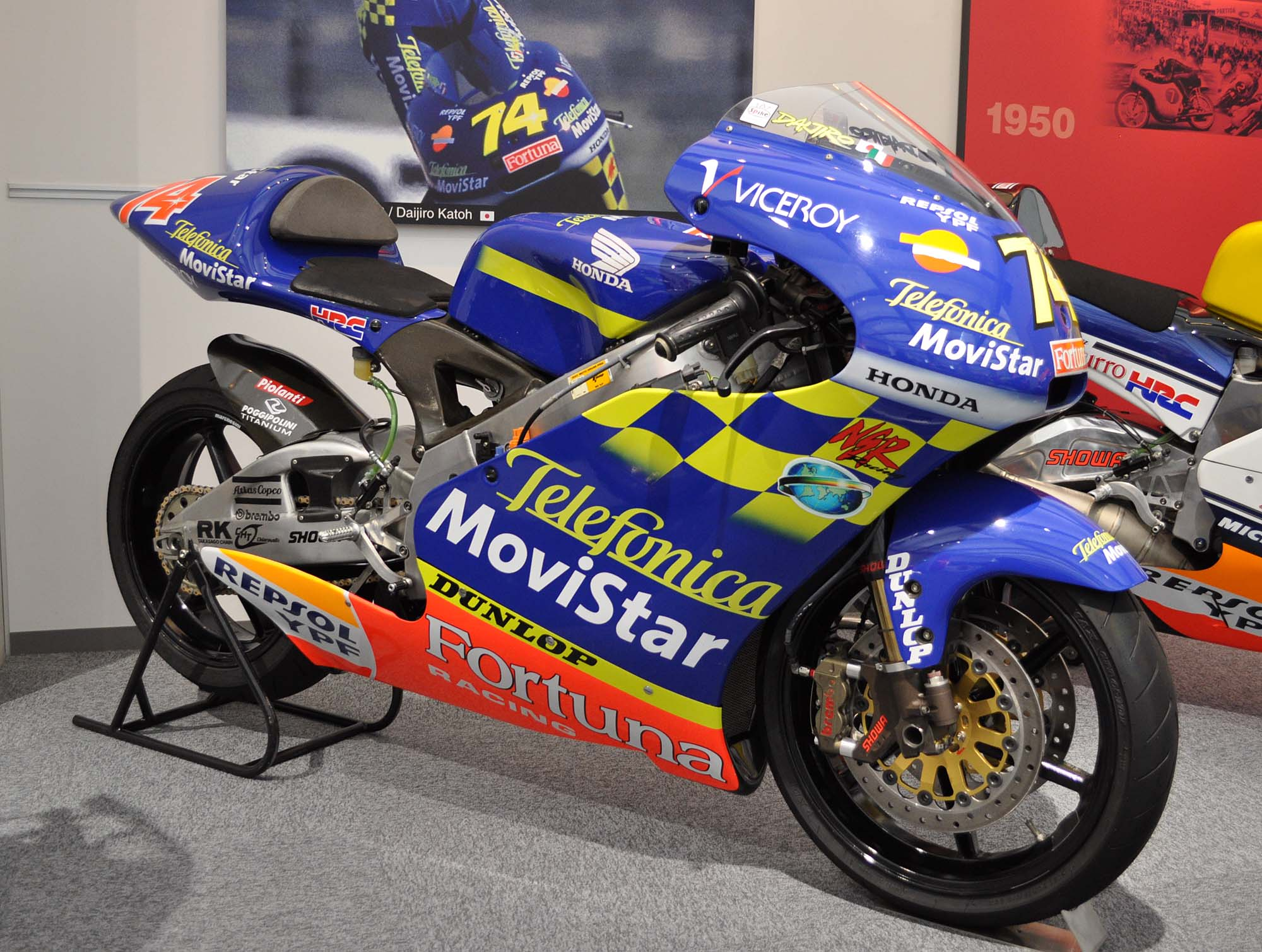 Honda NSR250 (Daijiro Kato, 2001)